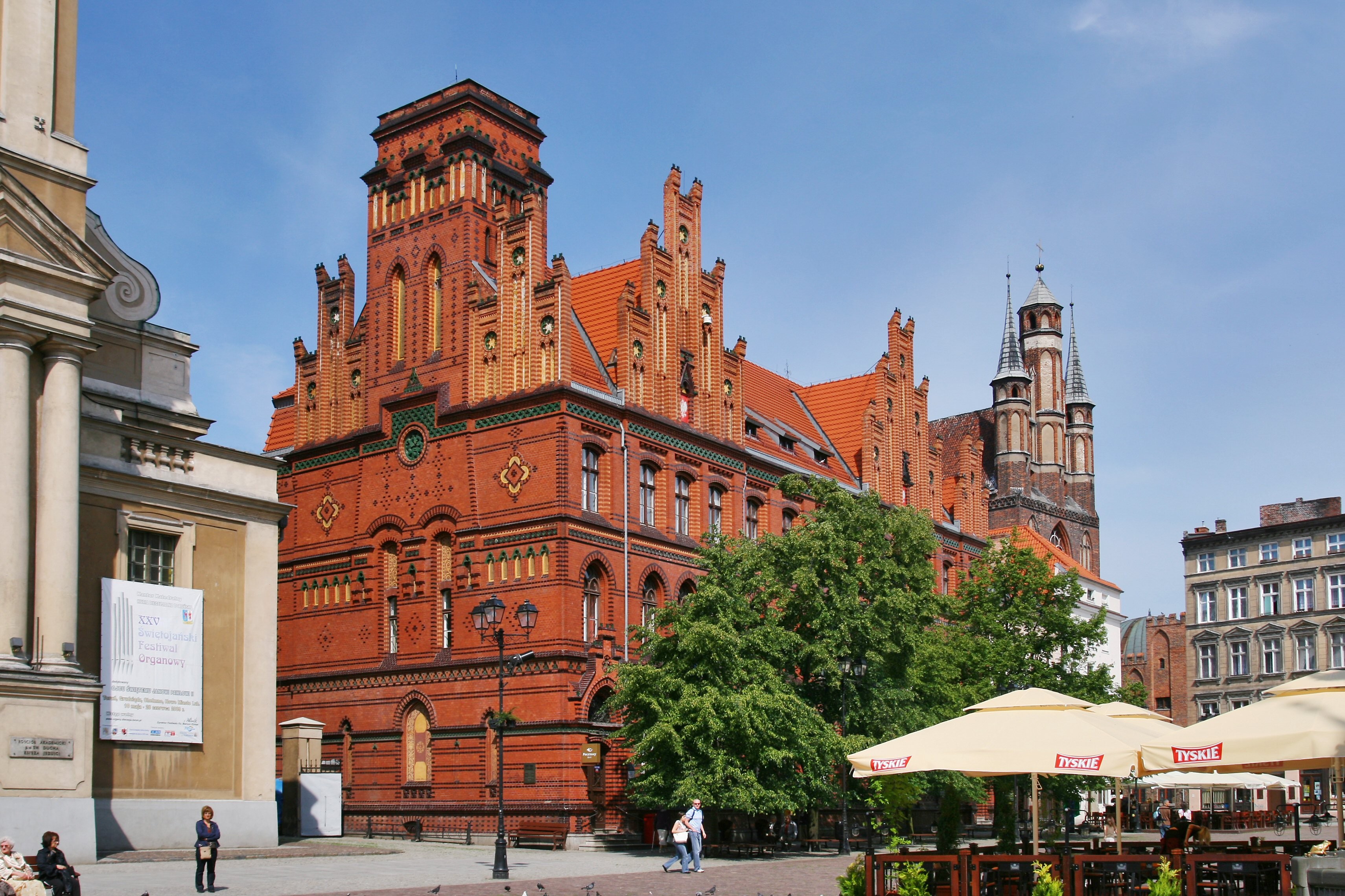 Post Office in Toruń.